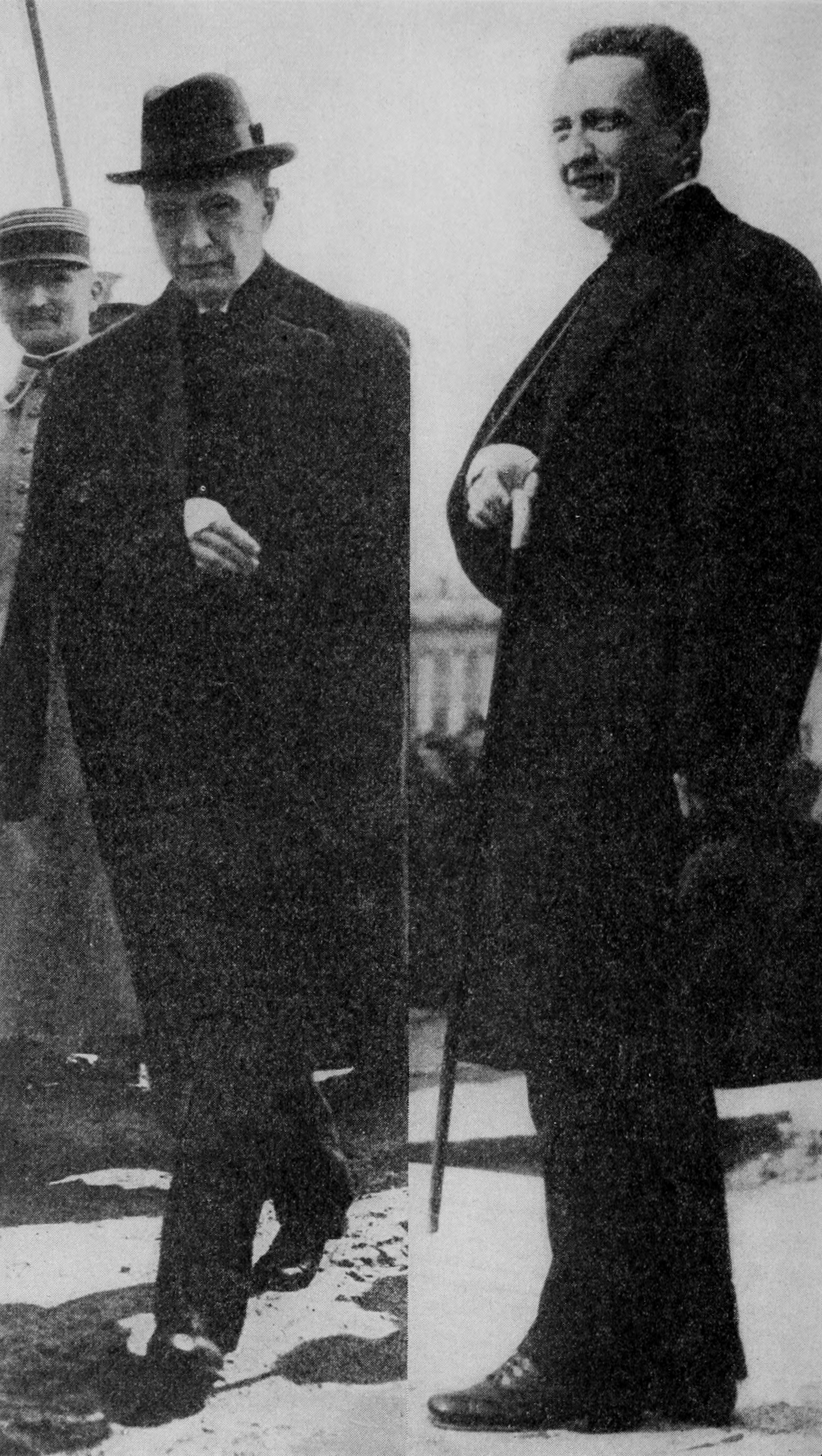 Alexander Fyodorovich Kerensky